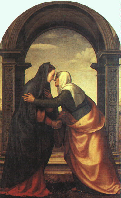 “The Visitation”, oil on wood